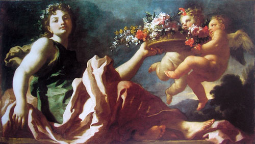 Flora . London, Priv. Collection.